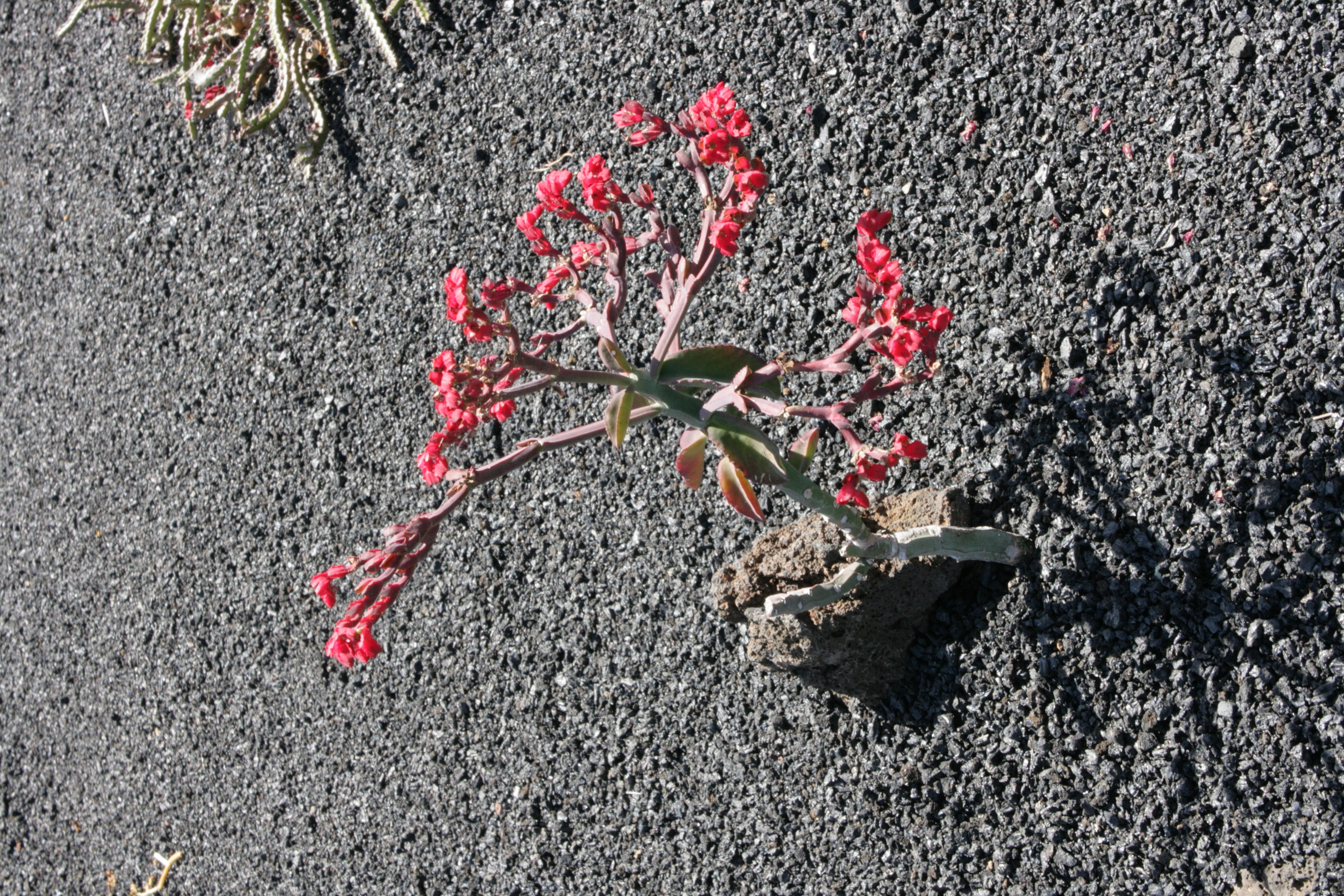 Euphorbia neococcinea grown in the Botanical Garden “Jardin de Cactus” in Guatiza, Teguise, Lanzarote, Canary Islands